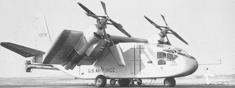 Hiller X-18 on ground with partially rotated wings